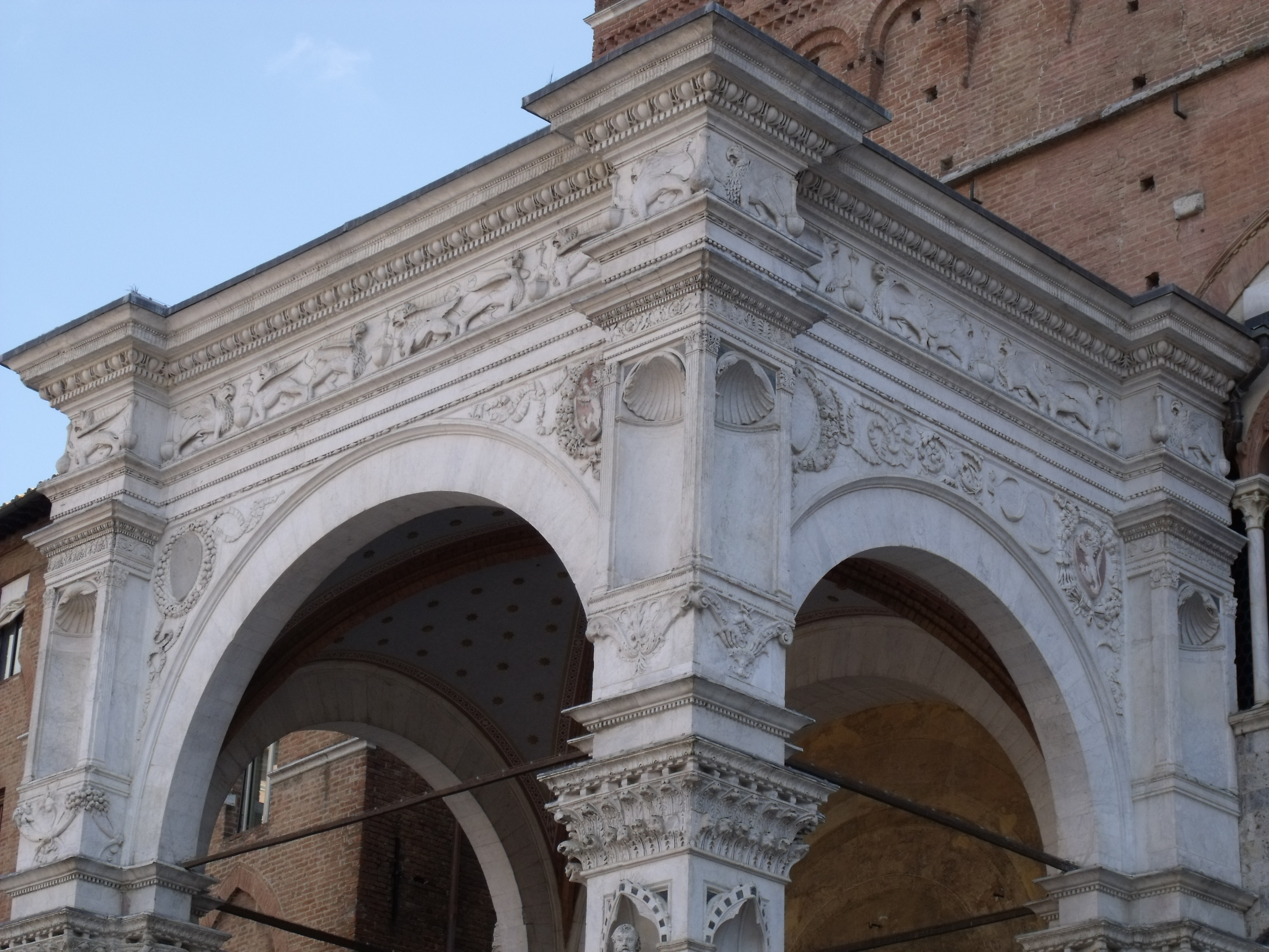 Roof of the Cappella di Piazza, Work of Antonio Federighi, Palazzo Pubblico Siena, Piazza del Campo, Siena, Tuscany, Italy